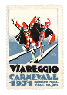 Promotional cinderella stamp from Italy, 1931: Carnival of Viareggio.